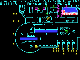 Screenshot of Rebelstar Raiders